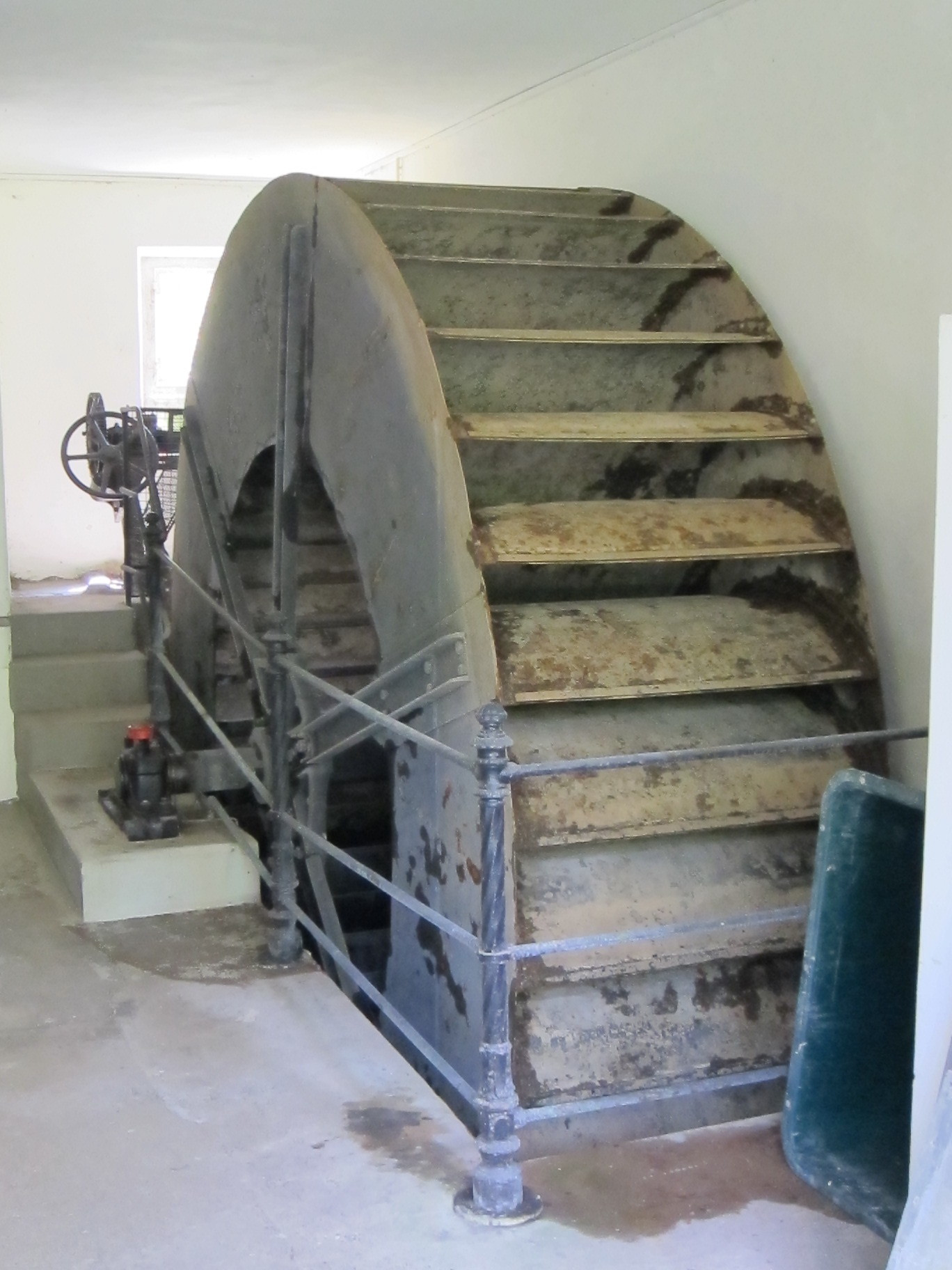 Pumping stations at the Nymphenburg Palace: Green Pump House, western works: water wheel.